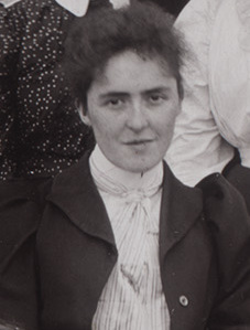 Chemistry staff and students c.1899 at the Royal Holloway College, University of London. Elizabeth Eleanor Field is in the 3rd row down, 3rd from left.